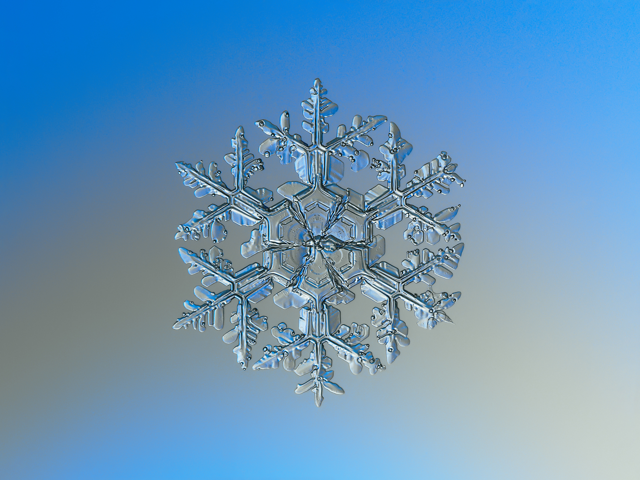 Macro photography of natural snowflake. This is relatively big crystal, 4 or 5 millimeters in diameter. Glass background with backlight, additional lens Helios 44M-5, december 2014, Moscow. 11 RAWs averaged.